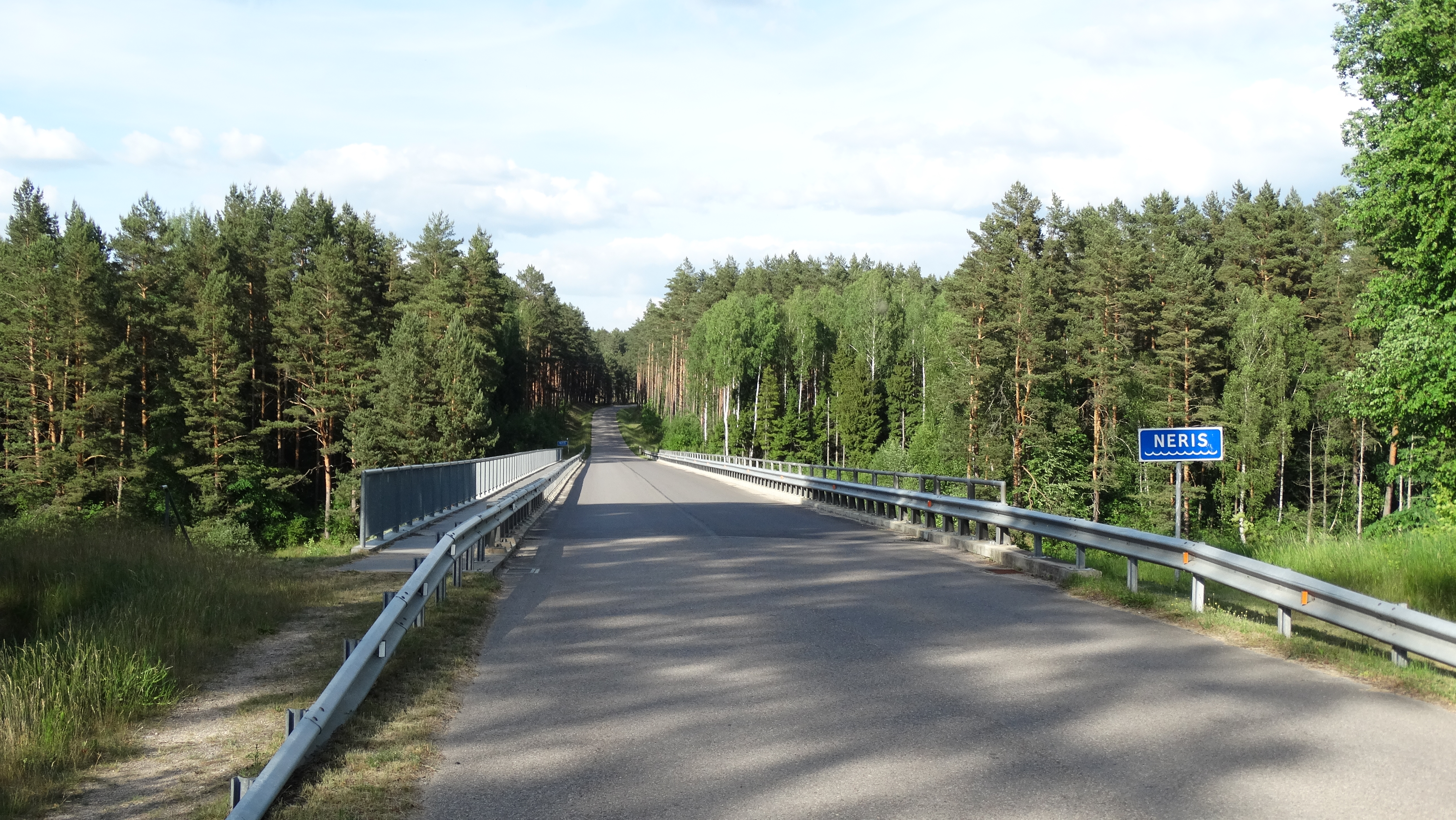 Bridge over the Neris River, by Balingradas, Švenčionys District, Lithuania